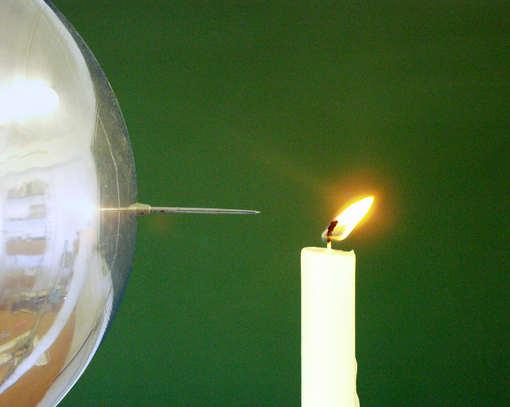 Electric wind.